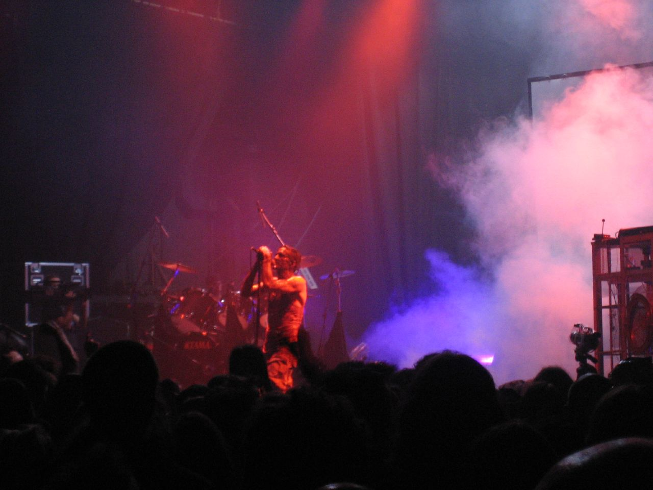 Skinny Puppy performing live at the London Astoria